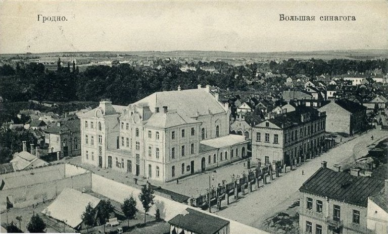 Great synagogue in Grodno, Belarus. The beginning of the 20th century.